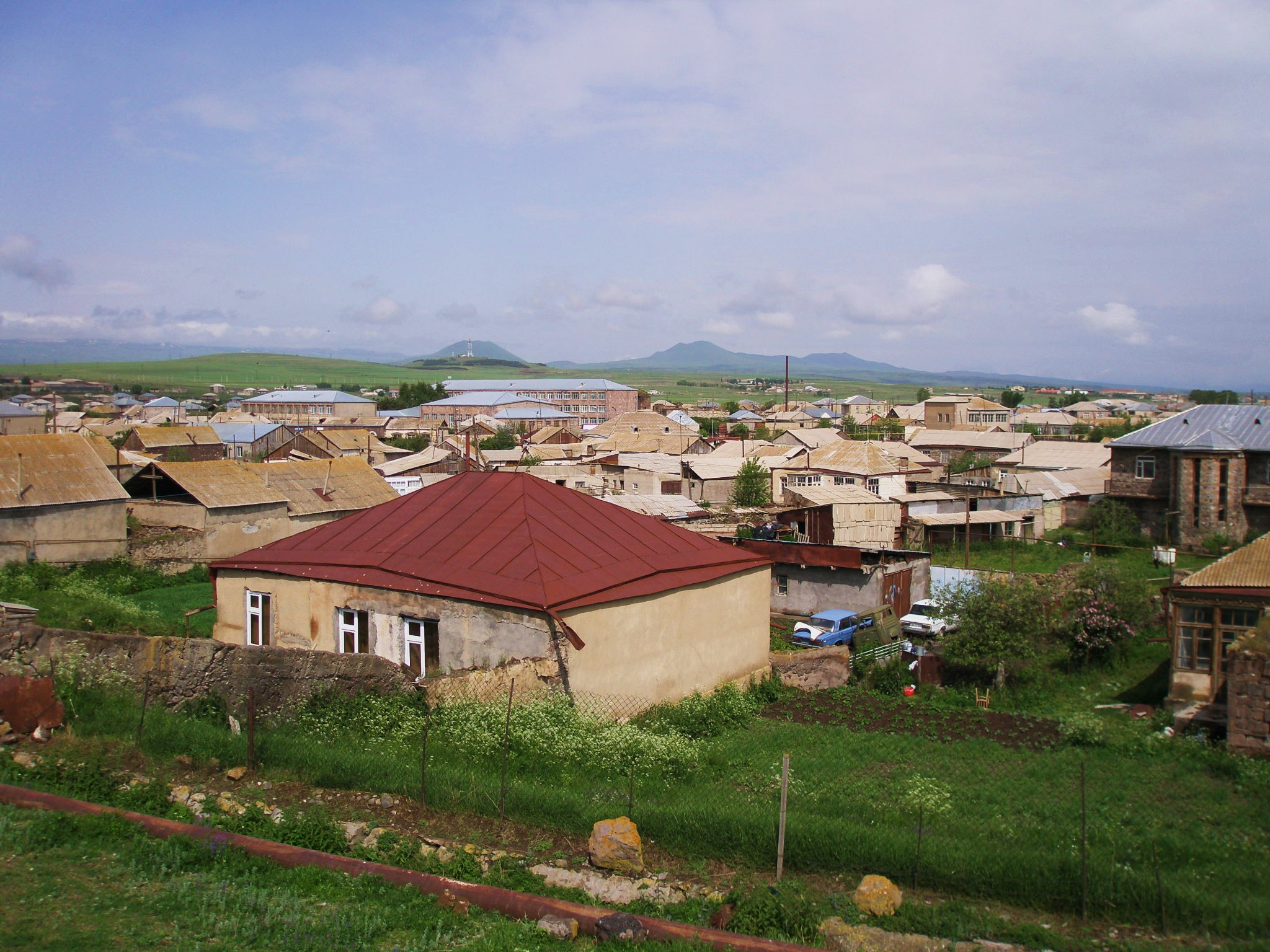 The village of Noratus